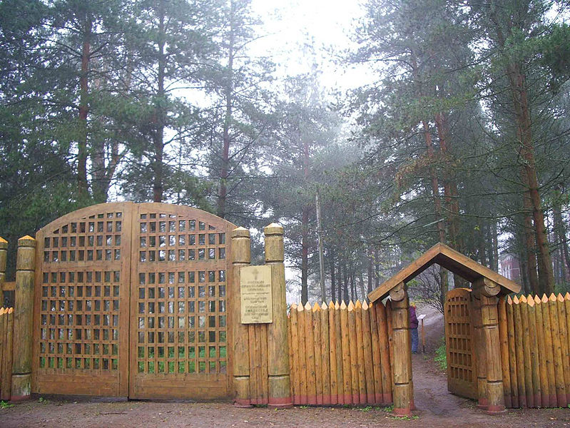 The gate into Peryn (Perynsky skit). Veliky Novgorod, Russia